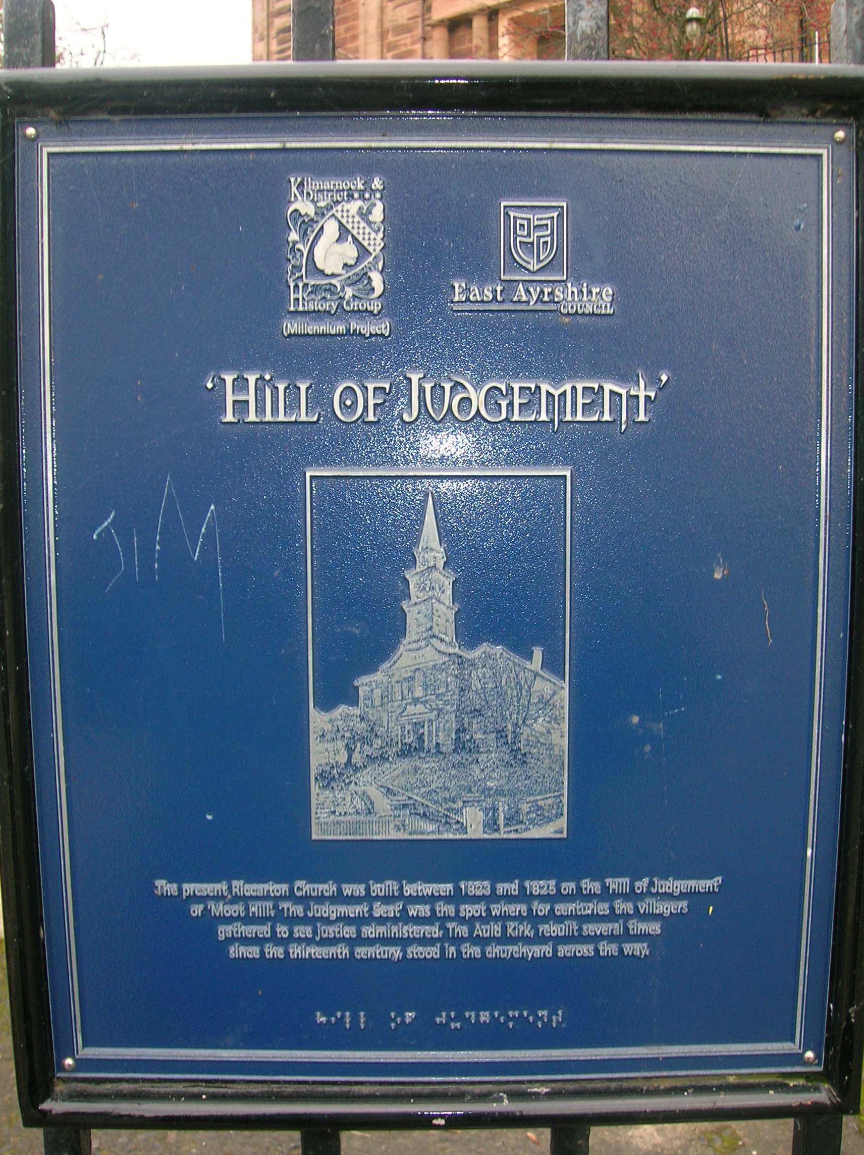 An historical plaque detailing the history of the Hill of Judgement at Riccarton, East Ayrshire, Scotland. Roger Griffith. 20 October 2007.